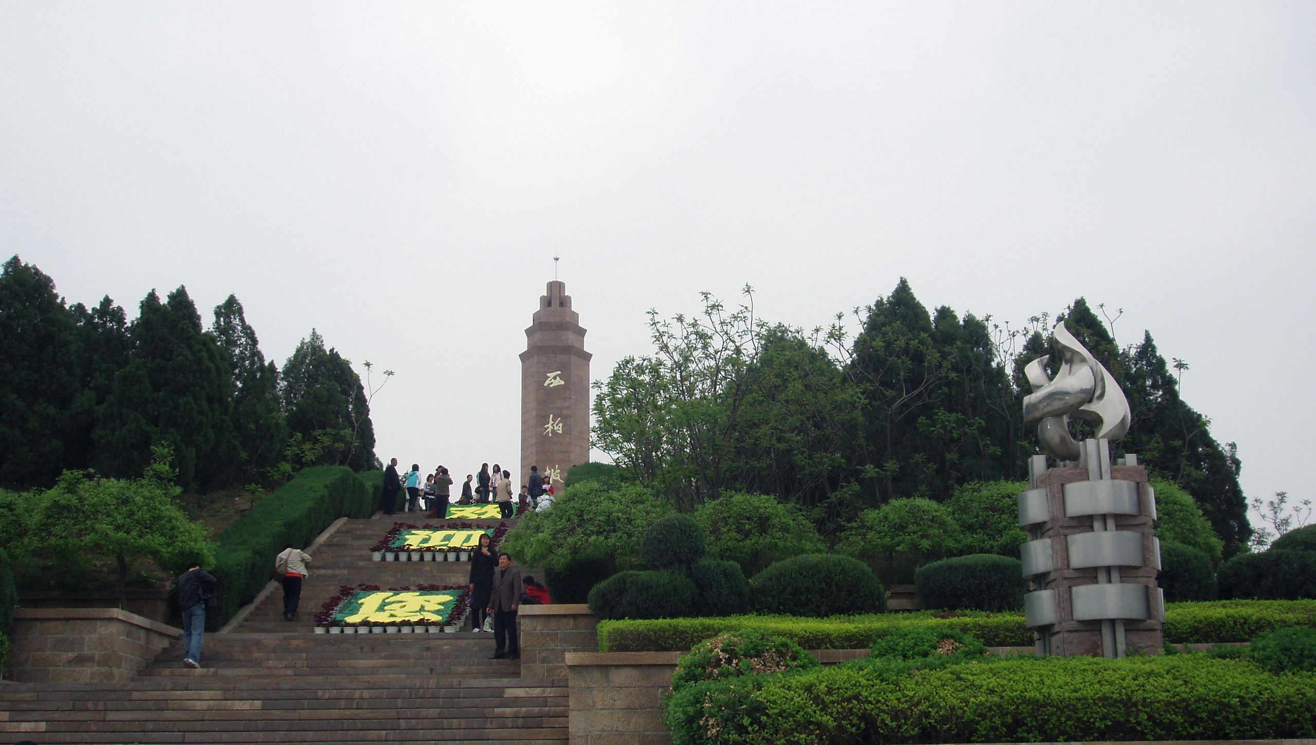 Xibaipuo (西柏坡), a Revelutionary museum in Shijiazhuang, China